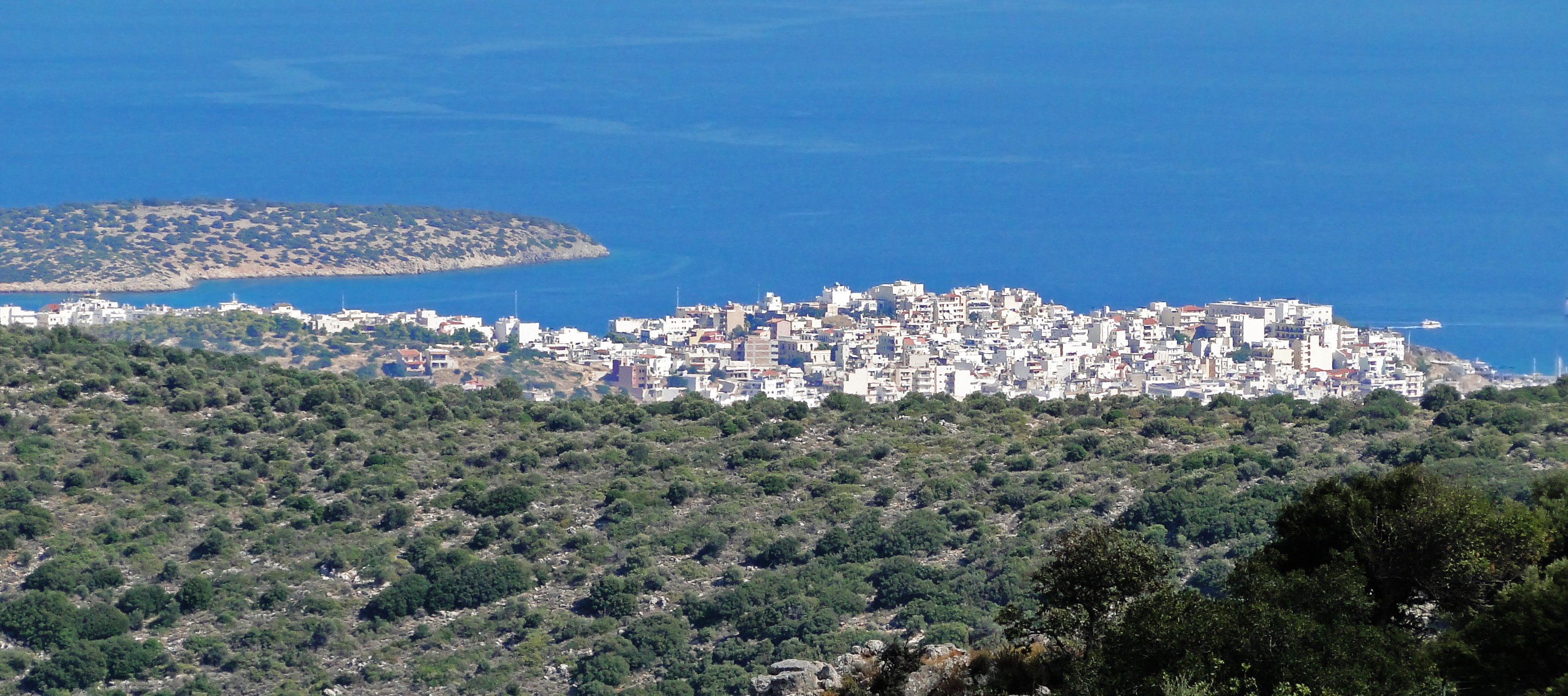 The city of Agios Nikolaos seen from the site of Lato, Crete, Greece